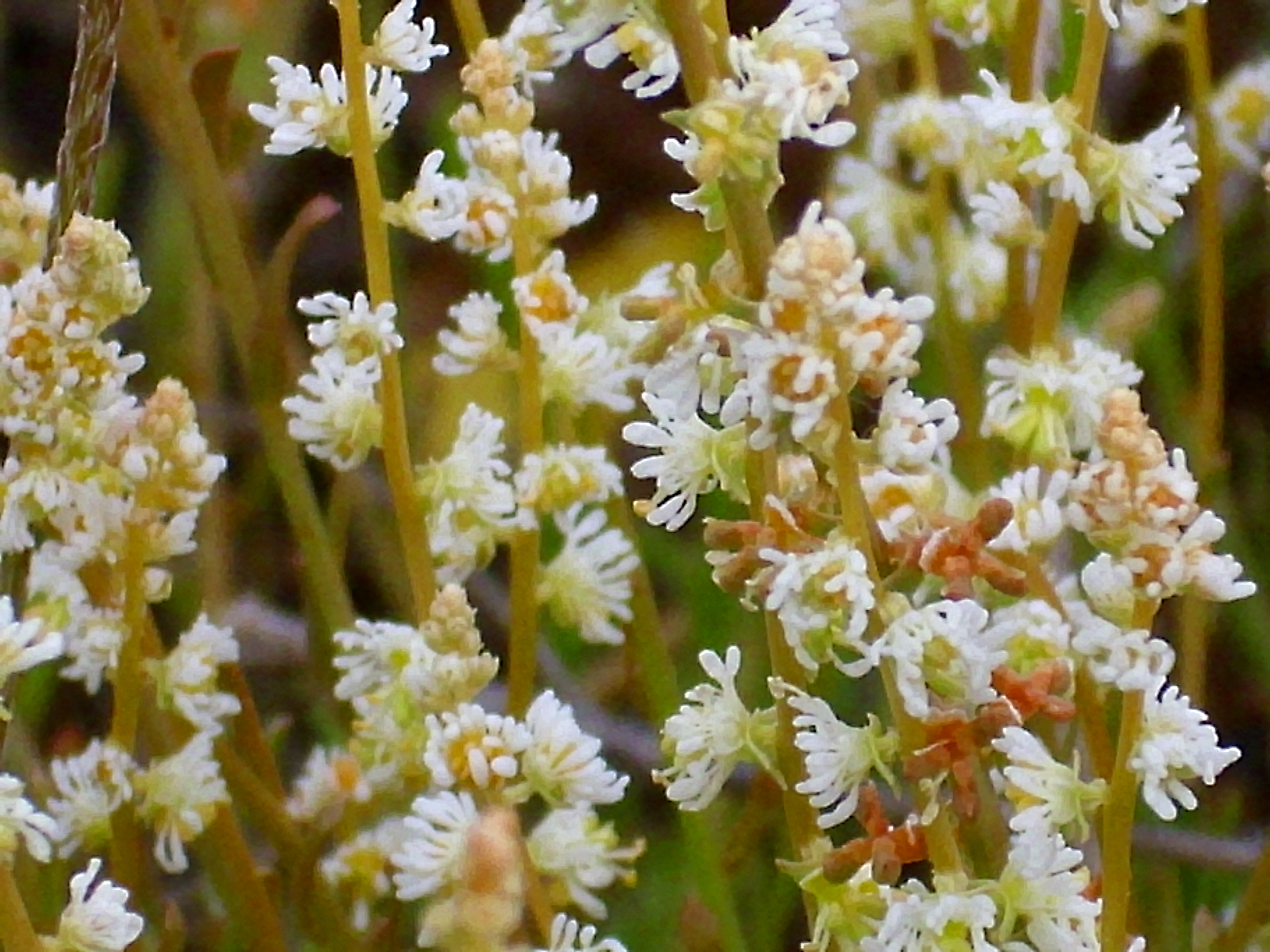 Sesamoides purpurascens close up, Campo de Calatrava, Spain